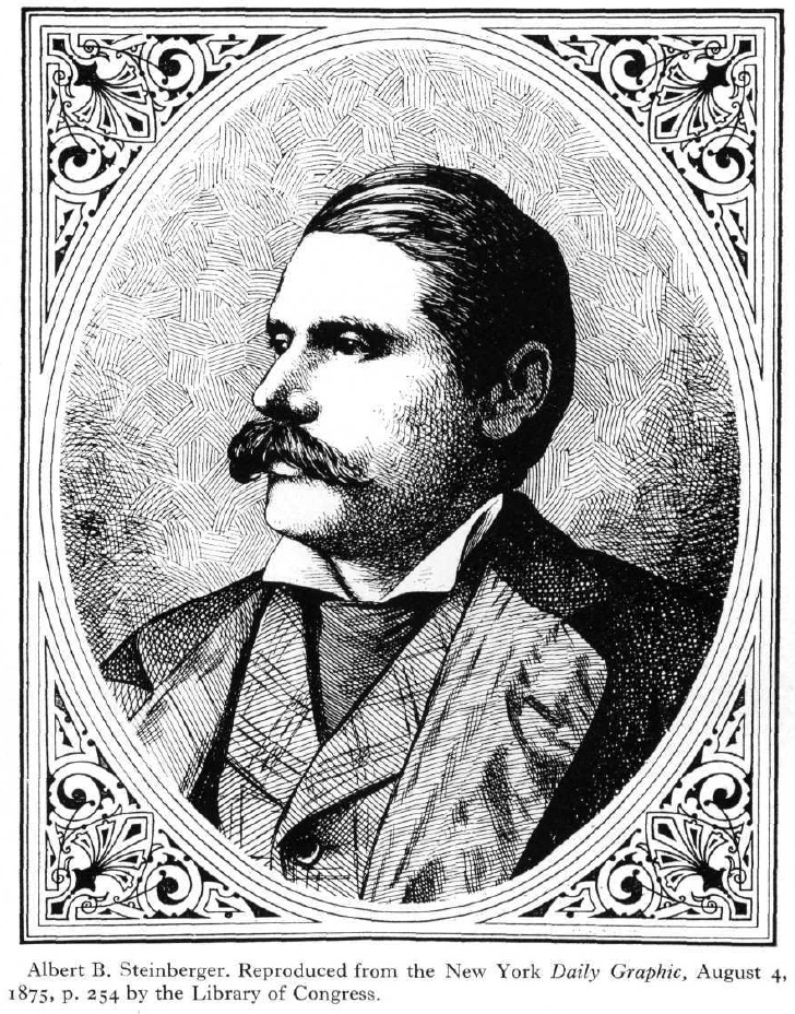 Col Albert Barnes Steinberger, a one time Premier of Samoa